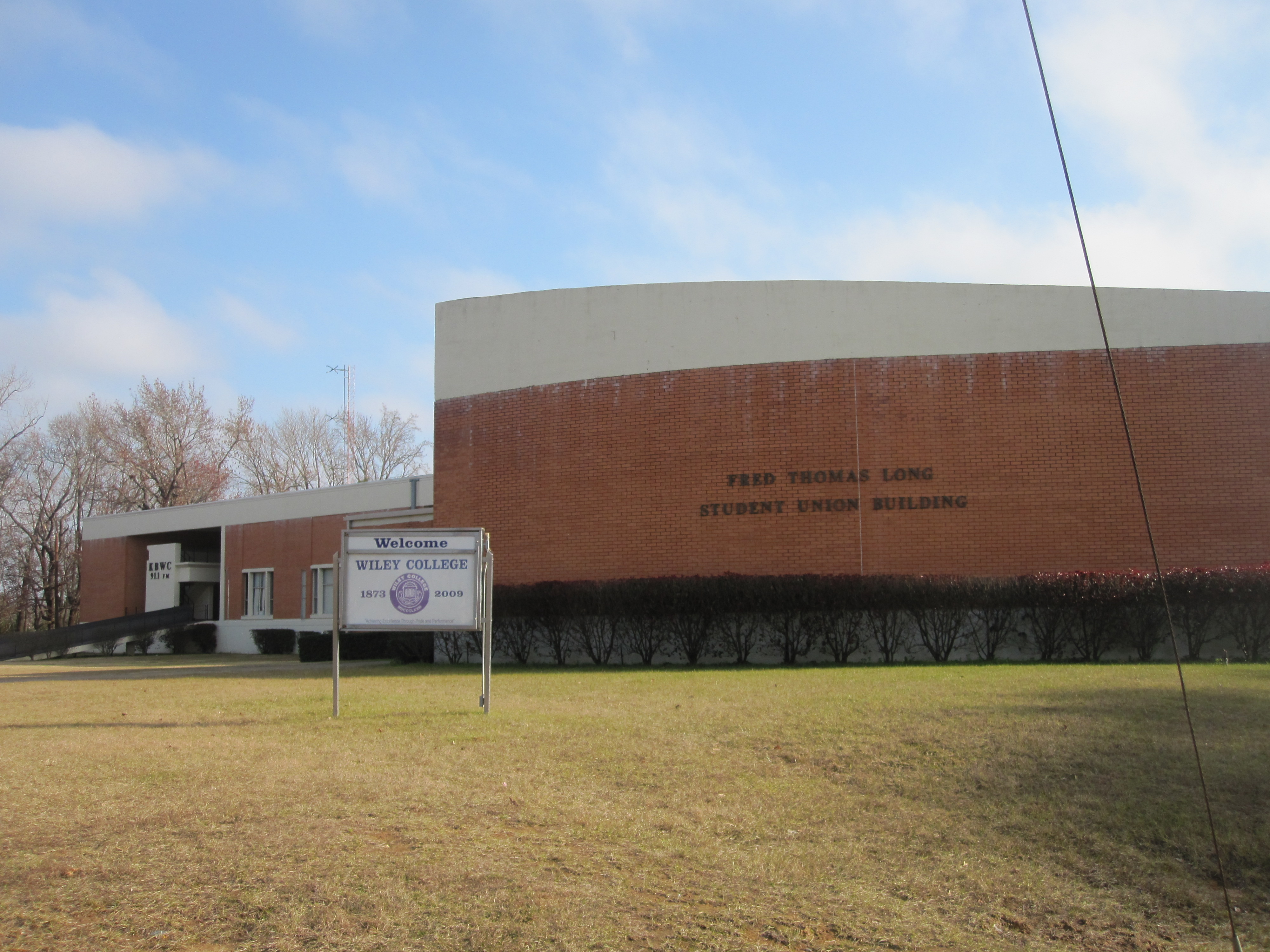 Student Union Building at Wiley College in Marshall, TX